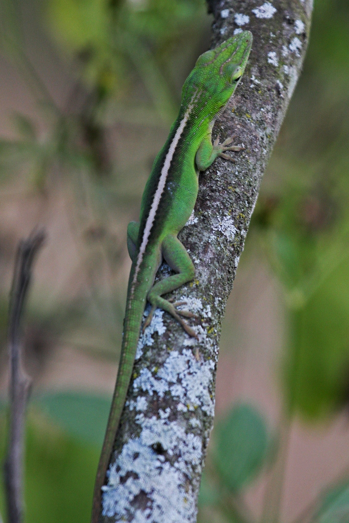 Cuban Green Anole (Anolis porcatus). In farmland in Santiago de Cuba Province.